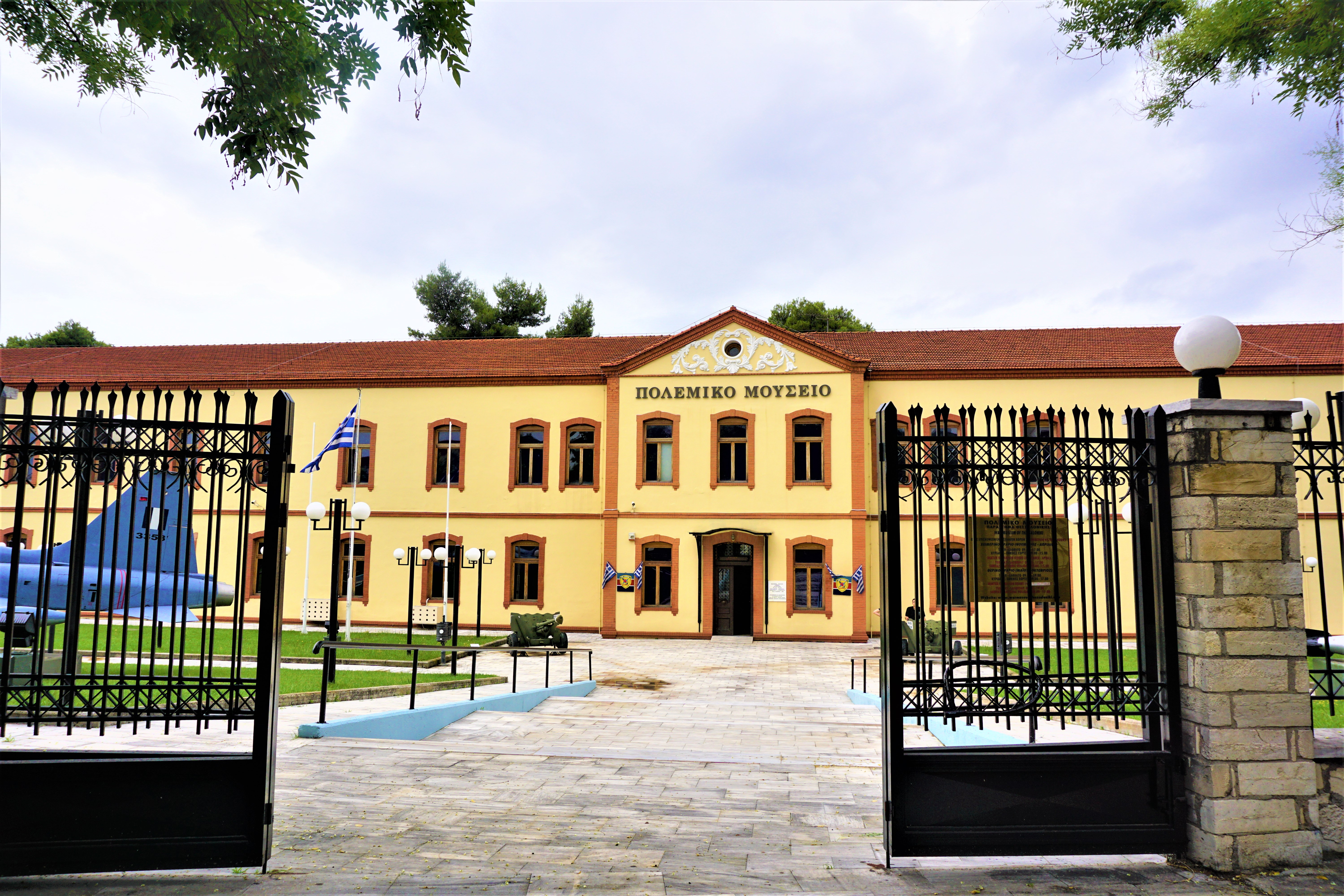 War Museum of Thessaloniki by Joy of Museums, for details